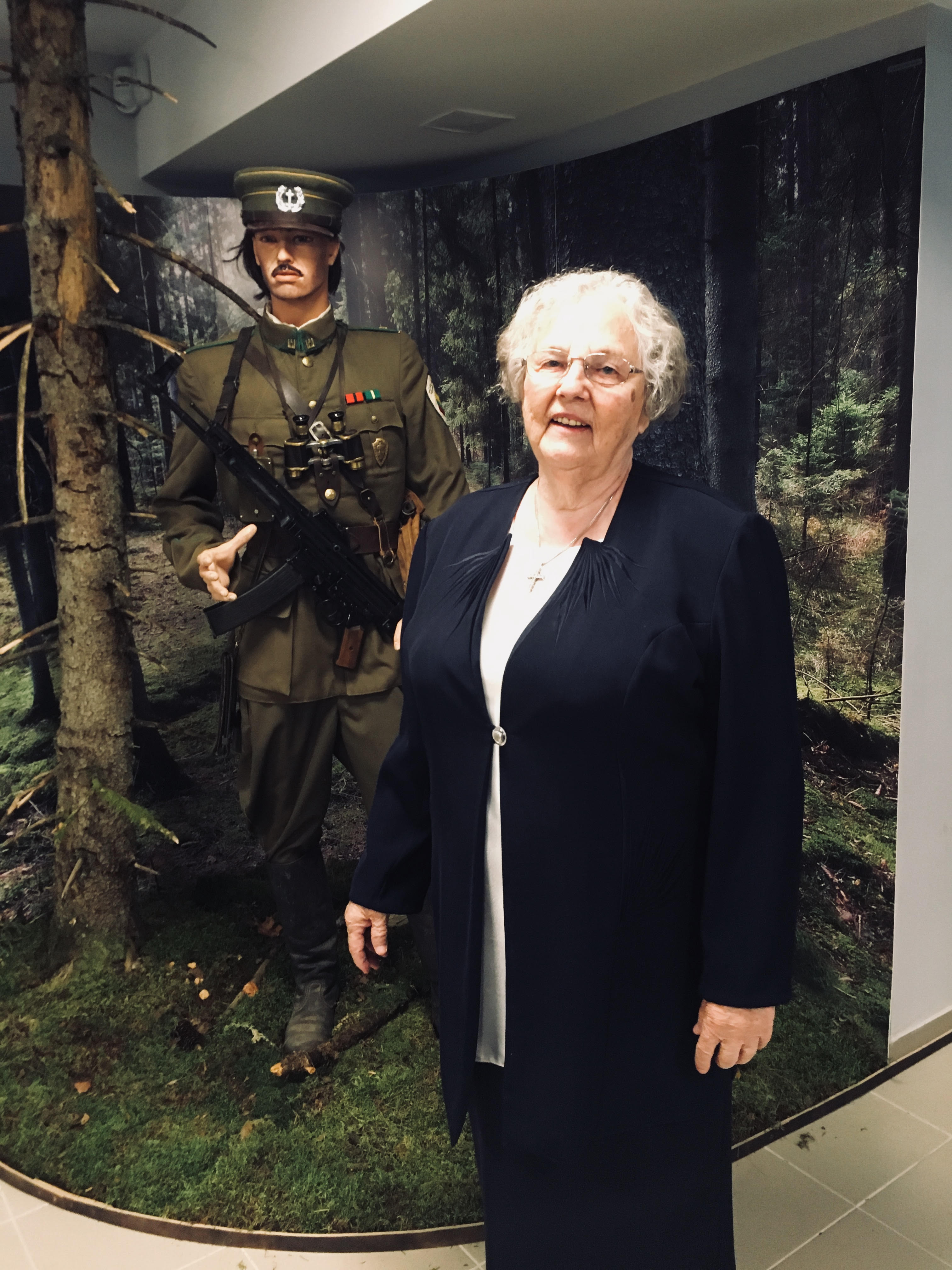 A. Norkutė visiting Tauragės krašto muziejus